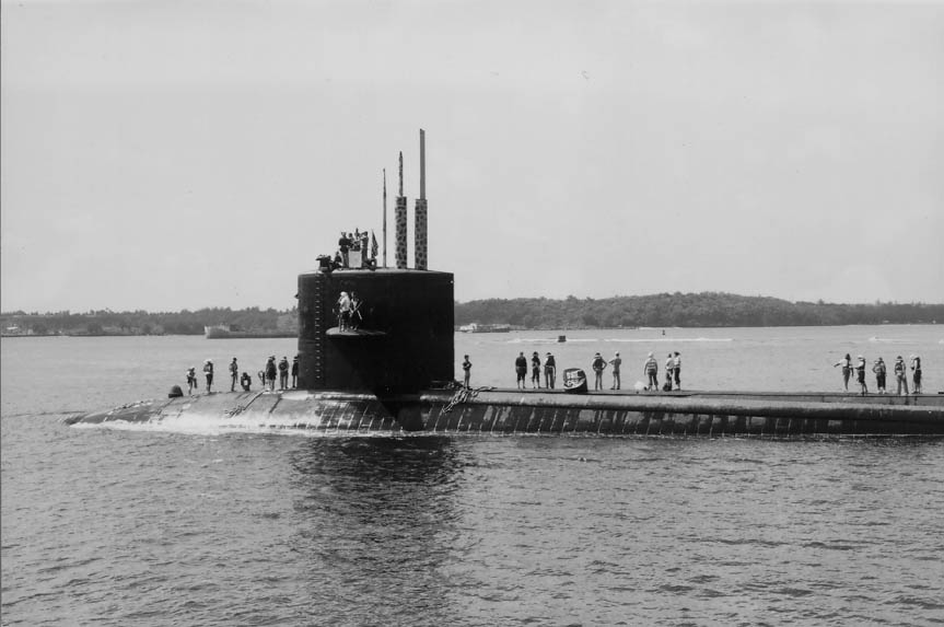 Jason M. Atkin, I personally took this picture on 31 OCT 94, and hereby give permission for it to be used for any purposes.